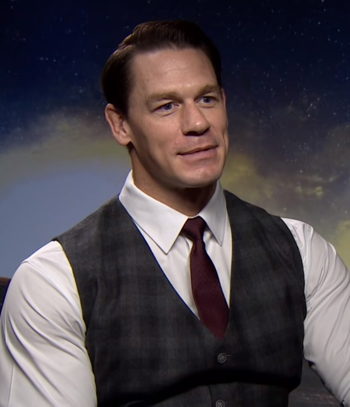 Watch the stars of new Transformers movie, Bumblebee, Hailee Seinfeld and John Cena, play a hilarious game of COMPLETE THE LYRICS: 1980s vs 2010s Edition! Plus, watch the cast and director Travis Knight reveal what it was like to record Bumblebee’s voice with Dylan O’Brien, which Transformer they want to make a spinoff movie on next, and why Hailee Seinfeld has plans to join the Avengers movies!